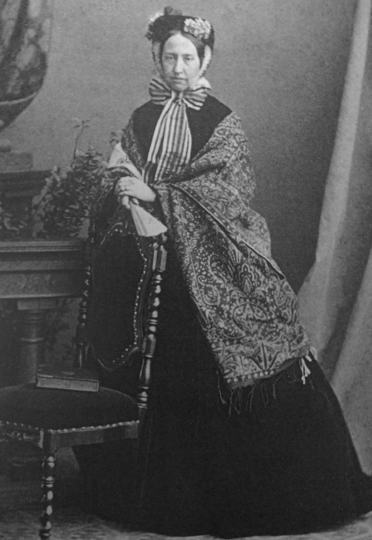 Photograph of Maria Beatrix of Austria-Este, Countess of Montizón, Titular Queen Consort of France.